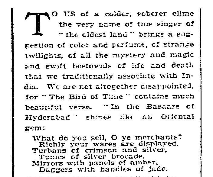 In the Bazaars of Hyderabad, (Newspaper cut out, published in 1913)